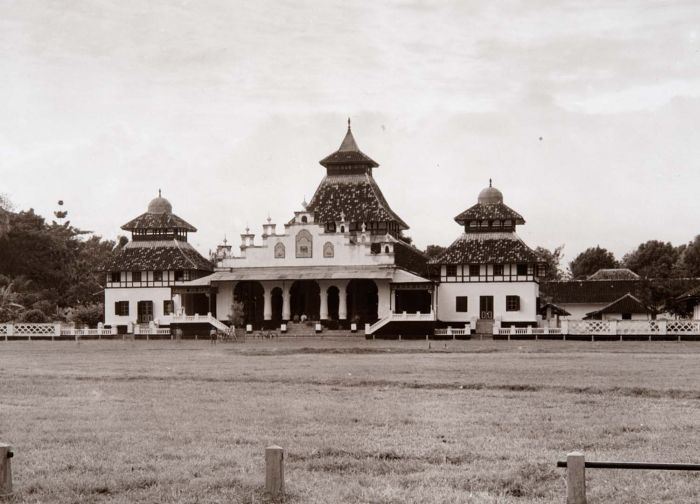 Mosque in Garut